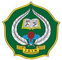 Logo IAIN Padangsidimpuan